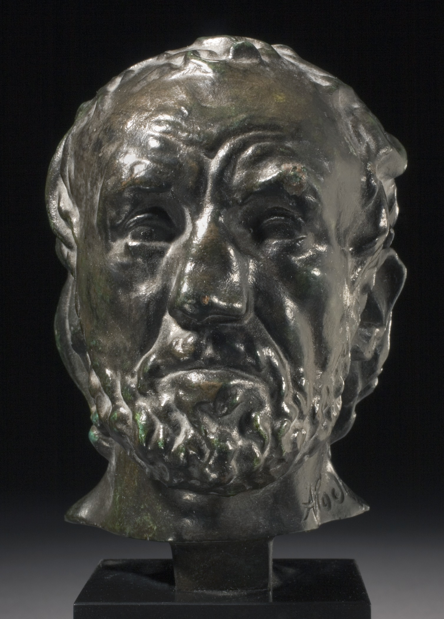 France, circa 1863-1864, date of cast unknown (after 1917) Sculpture Bronze Gift of Leona Cantor Palmer (M.72.81.7) European Sculpture